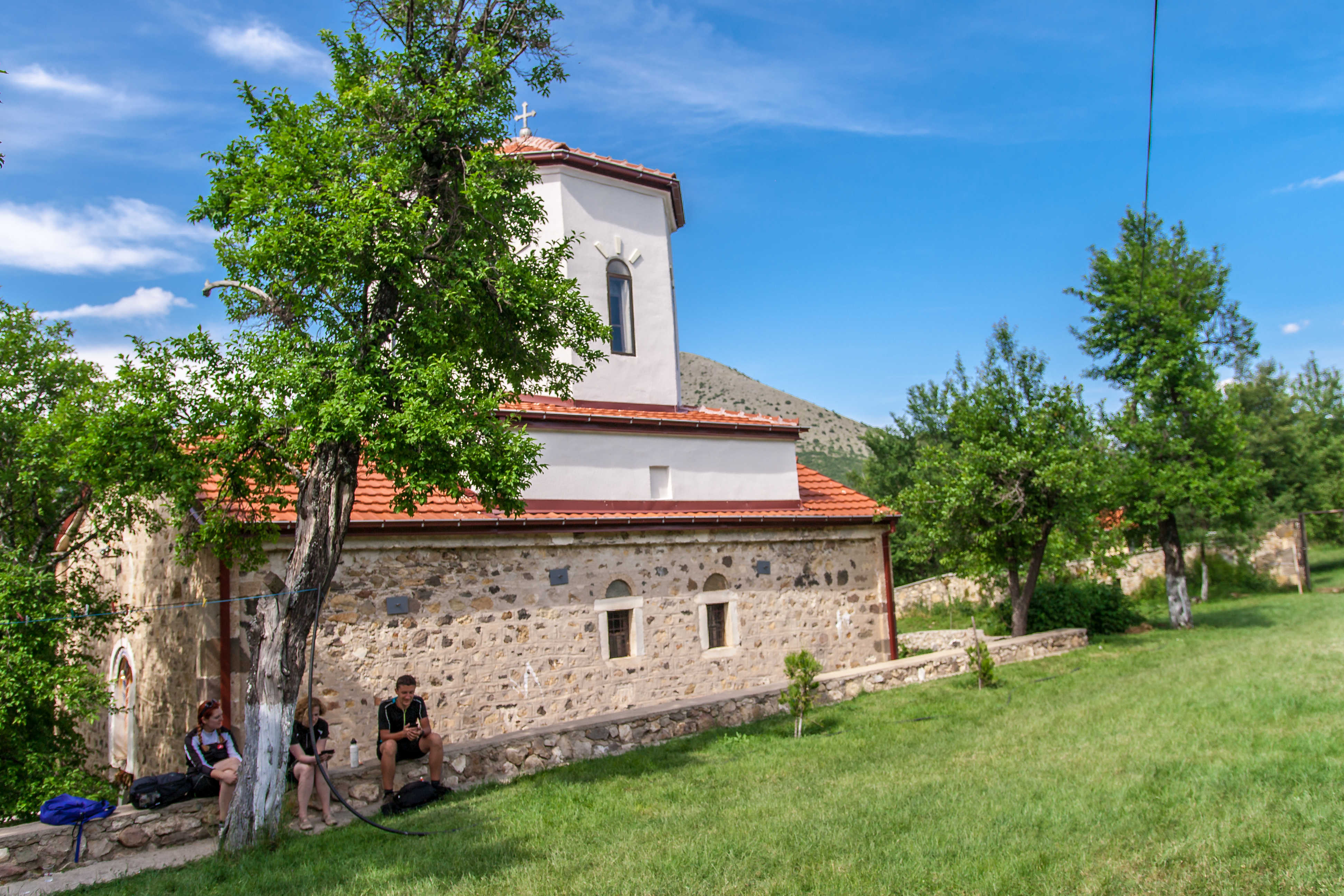 View of the St. Elijah Church, part of the Vitolište Monastery